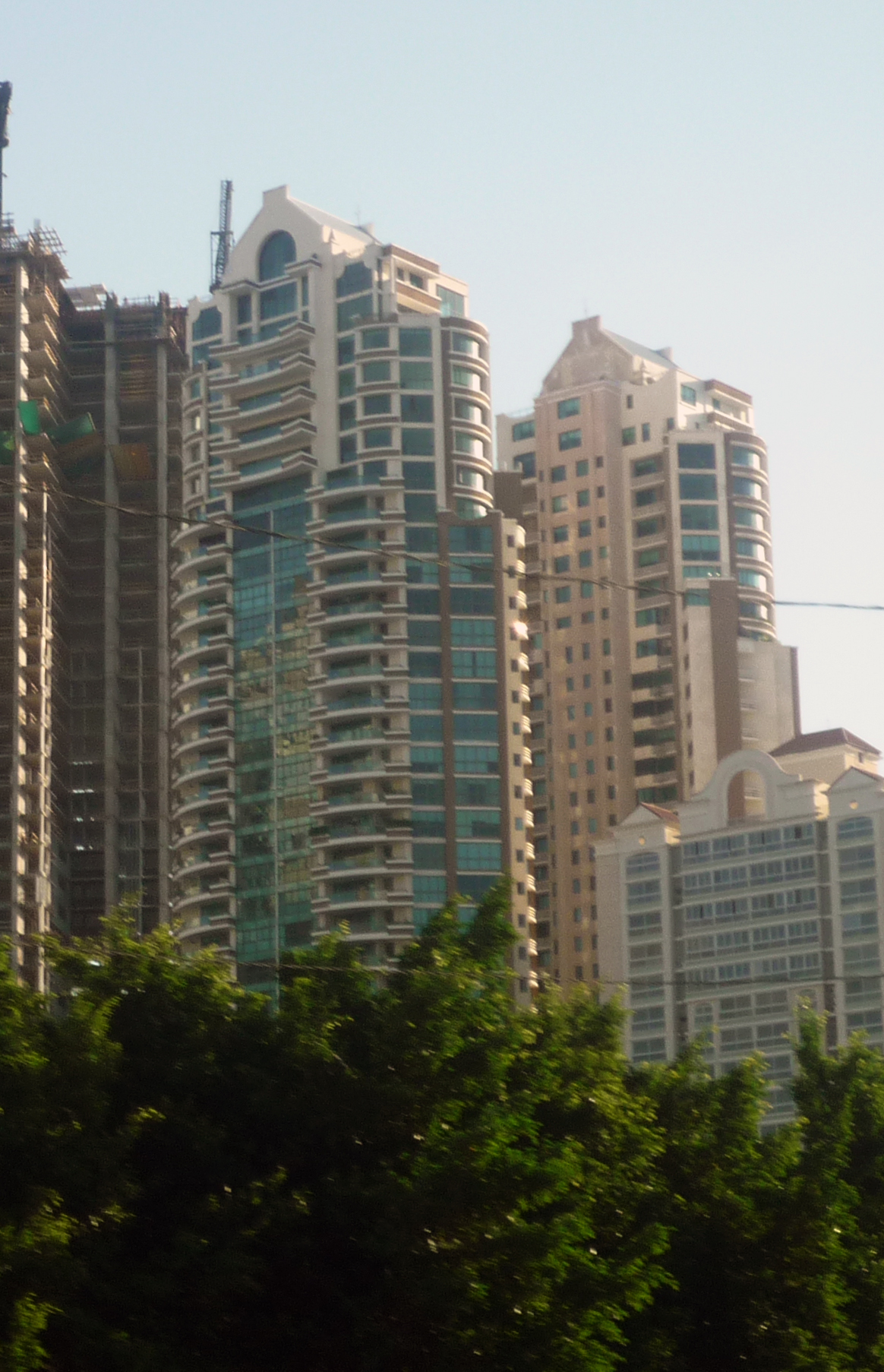 Ocean Park Building, Panama City, Panama.